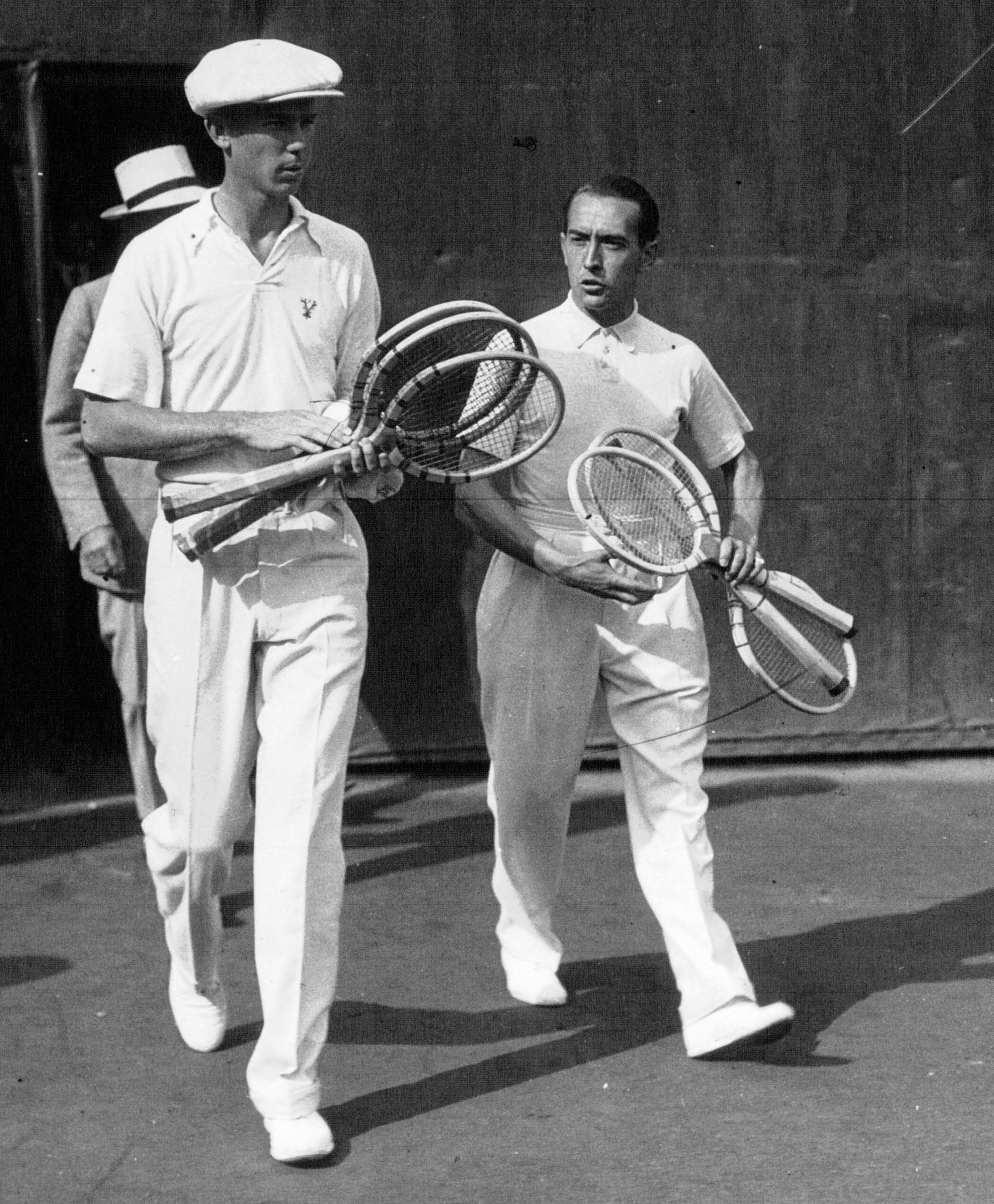 Tennis players Ellsworth Vines (left) and Henri Cochet at the 1932 International Lawn Tennis Challenge (Davis Cup).